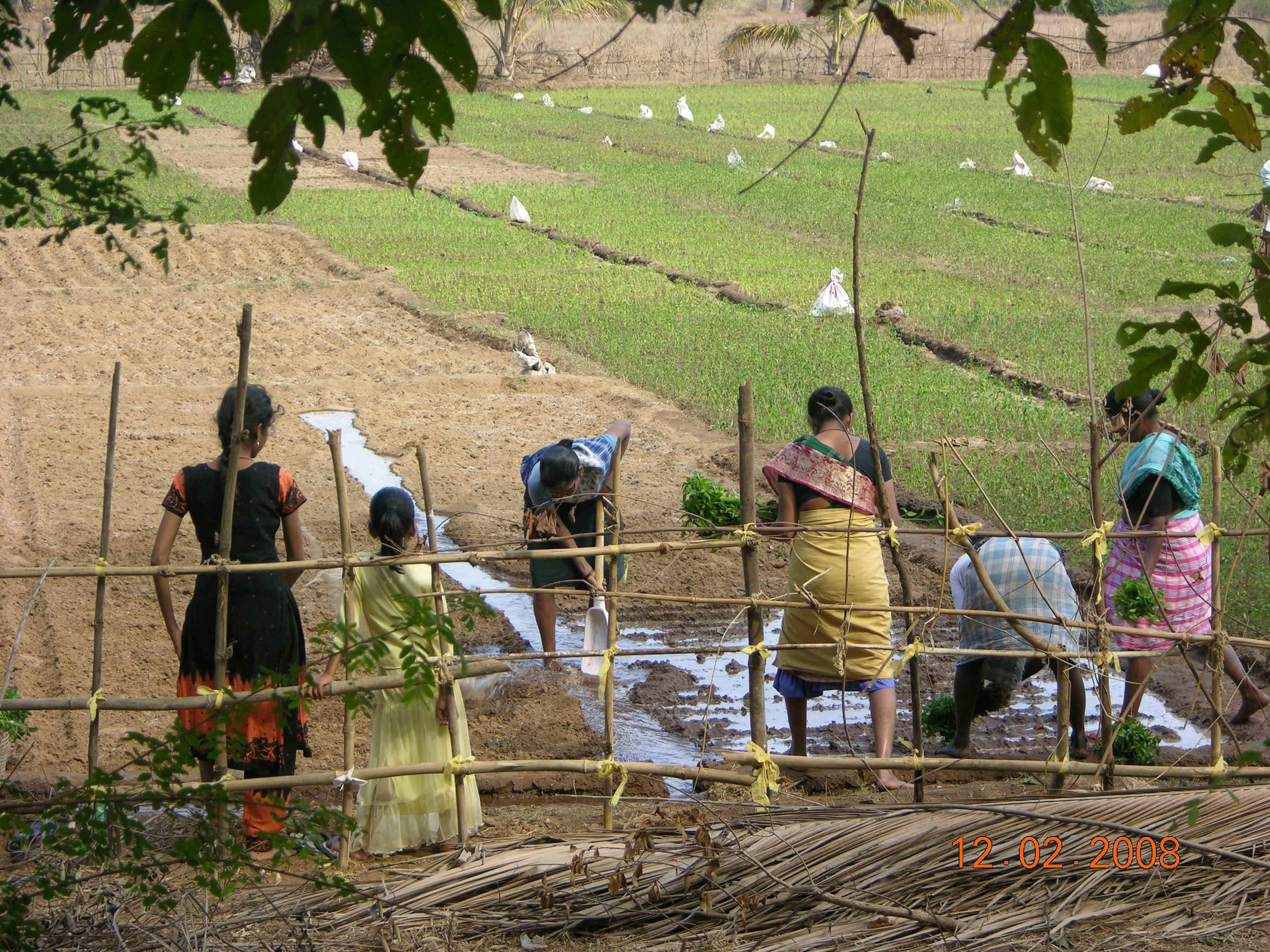 India. Rice field.